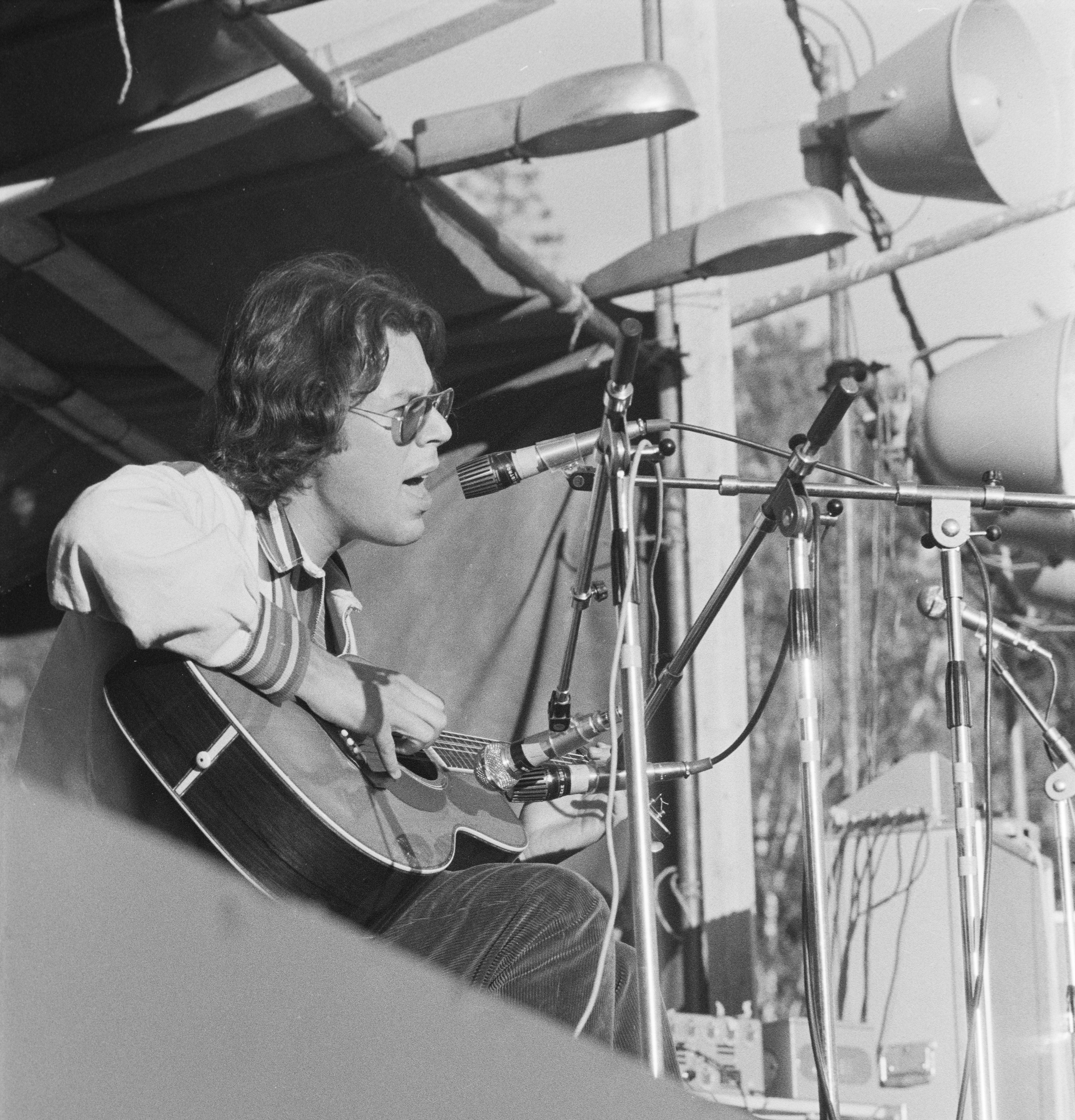 Photograph of the U.S. musician Stefan Grossman (1945–) at Ruisrock music festival in Finland.